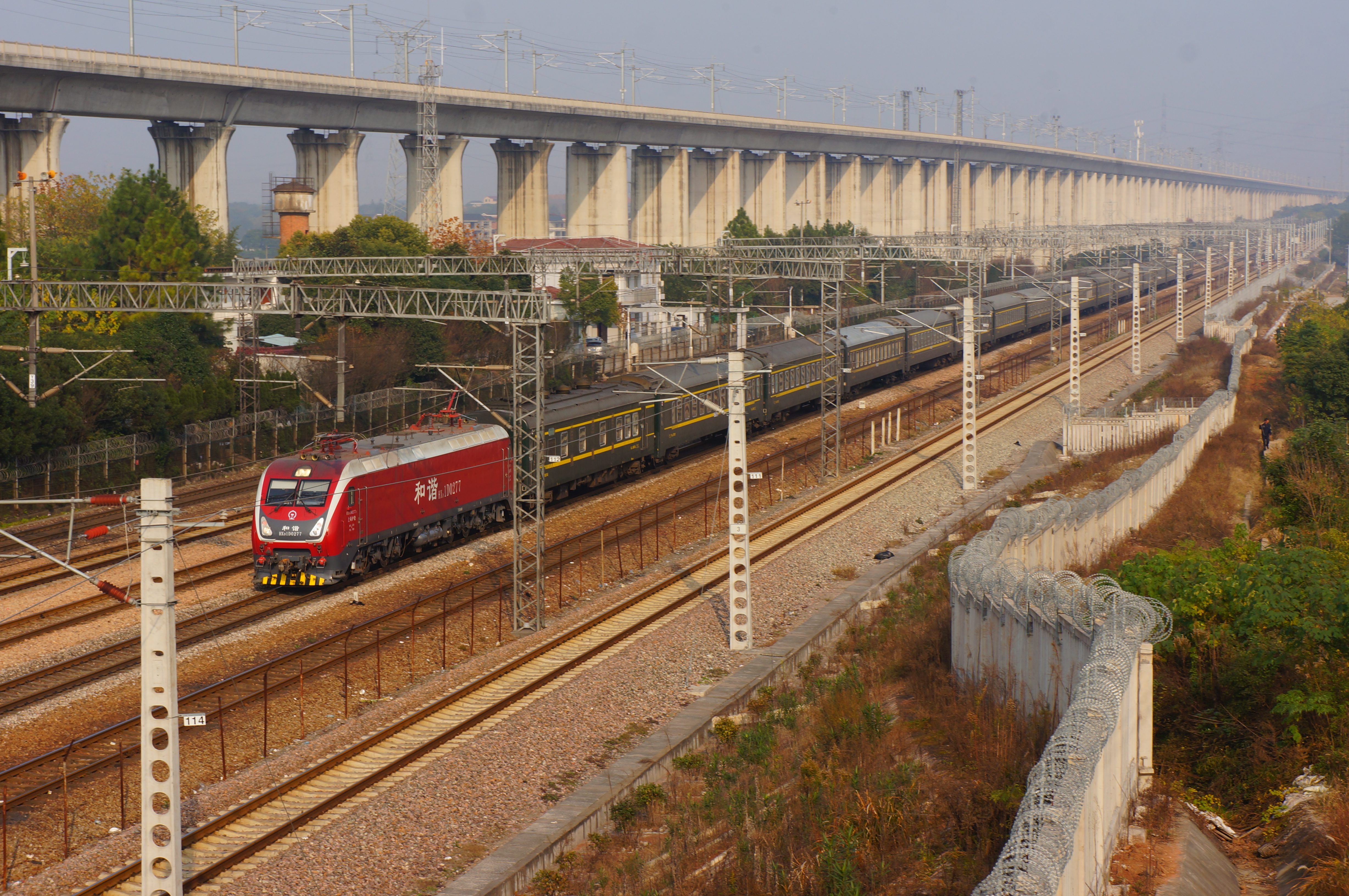 201612 T169 passes Dongxiao Station